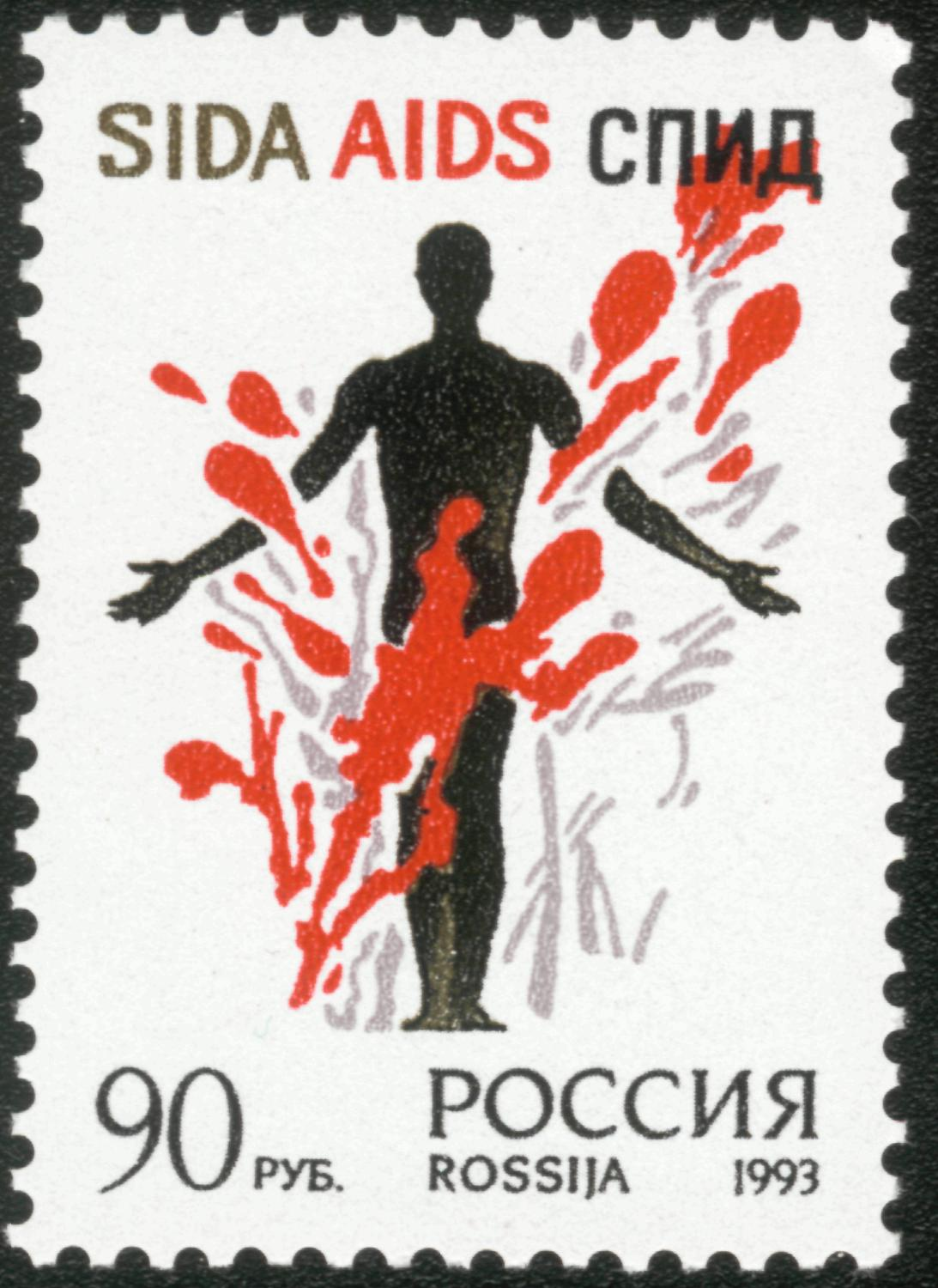 Stamp of Russia. Stop AIDS 1993, 90 rubles